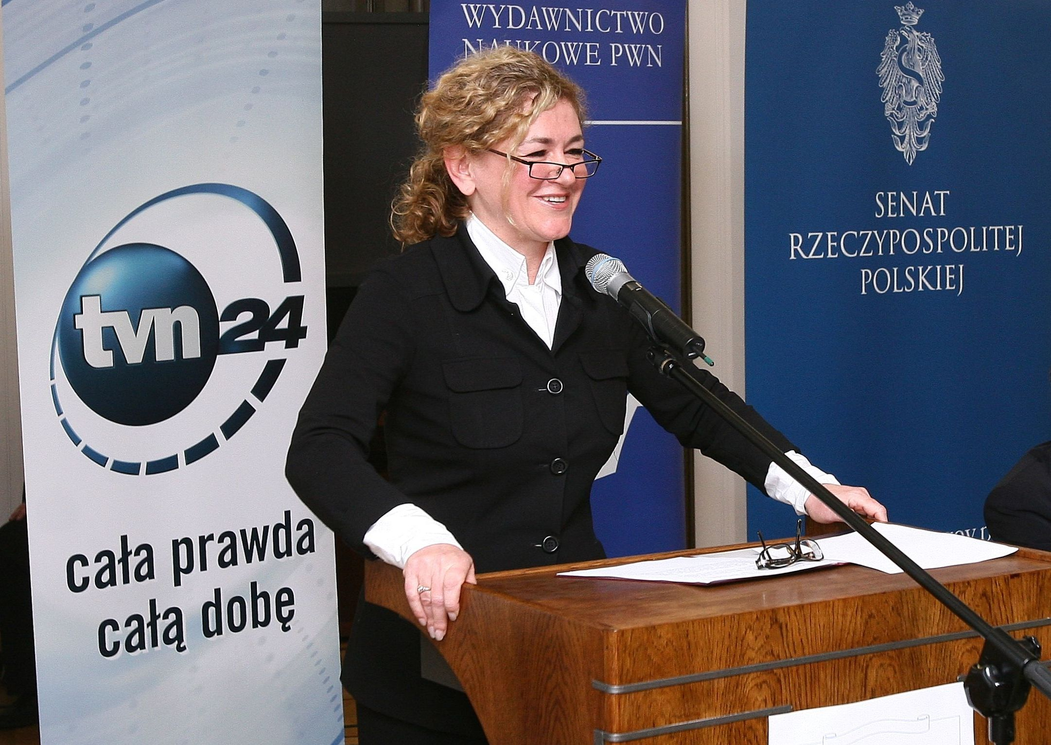 Deputy Marshal Krystyna Bochenek opening the discussion panel "Language of Polish politics after 1989" in the Polish Senate